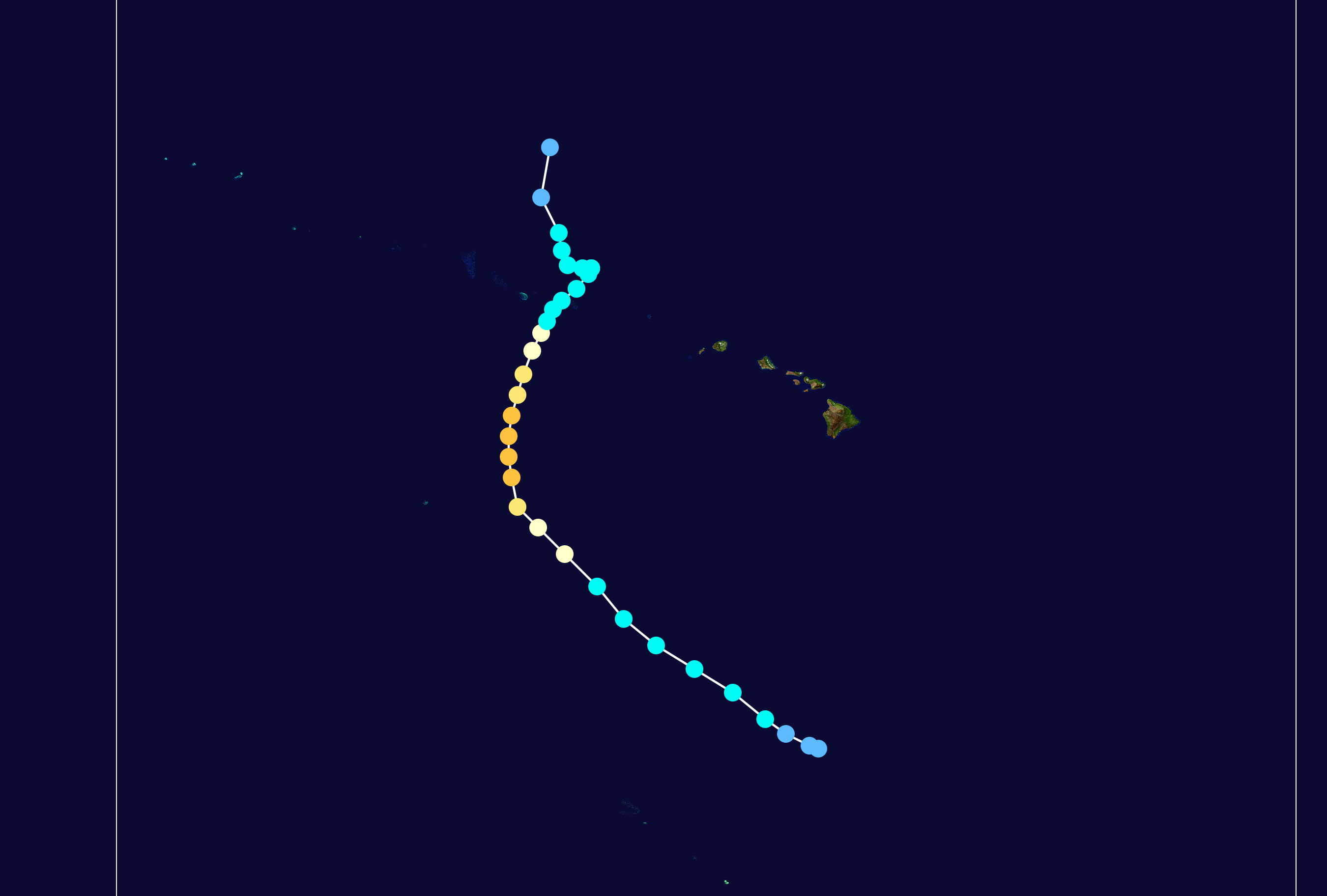 Track map of Hurricane Neki of the 2009 Pacific hurricane season. The points show the location of the storm at 6-hour intervals. The colour represents the storm's maximum sustained wind speeds as classified in the Saffir–Simpson scale (see below), and the shape of the data points represent the nature of the storm, according to the legend below. Saffir–Simpson scale Tropical depression≤38 mph≤62 km/h Category 3111–129 mph178–208 km/h Tropical storm39–73 mph63–118 km/h Category 4130–156 mph209–251 km/h Category 174–95 mph119–153 km/h Category 5≥157 mph≥252 km/h Category 296–110 mph154–177 km/h Unknown Storm type Tropical cyclone Subtropical cyclone Extratropical cyclone / Remnant low / Tropical disturbance / Monsoon depression